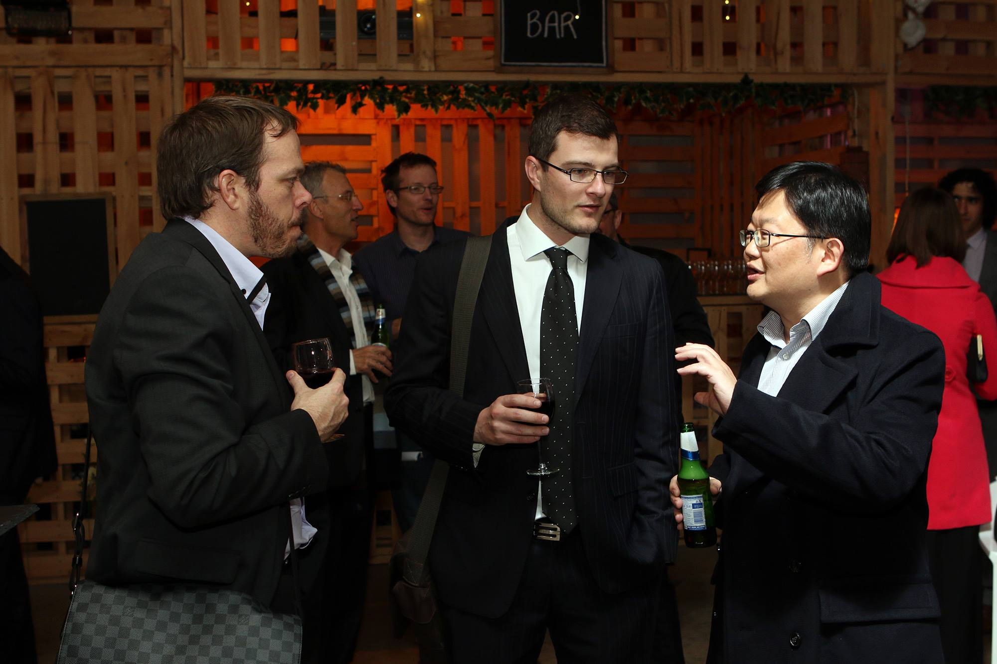 Tappr at the Good Design Awards 2014